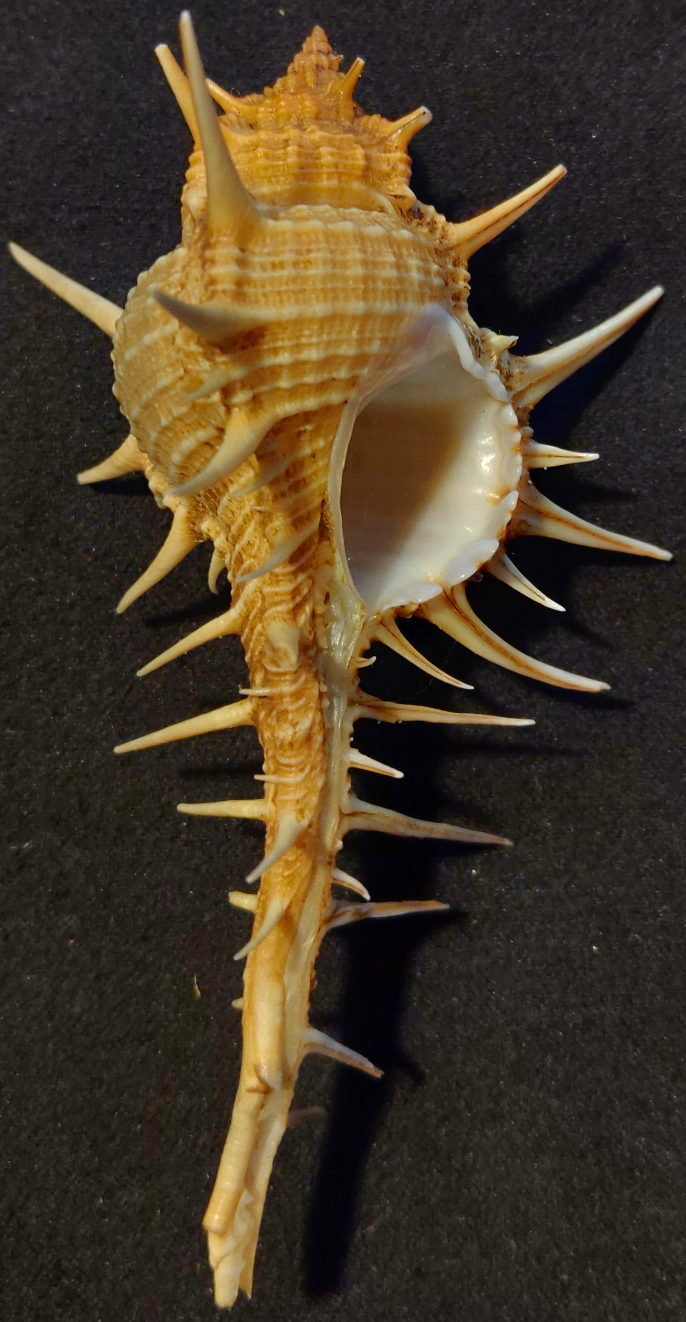 Murex Africanus Front